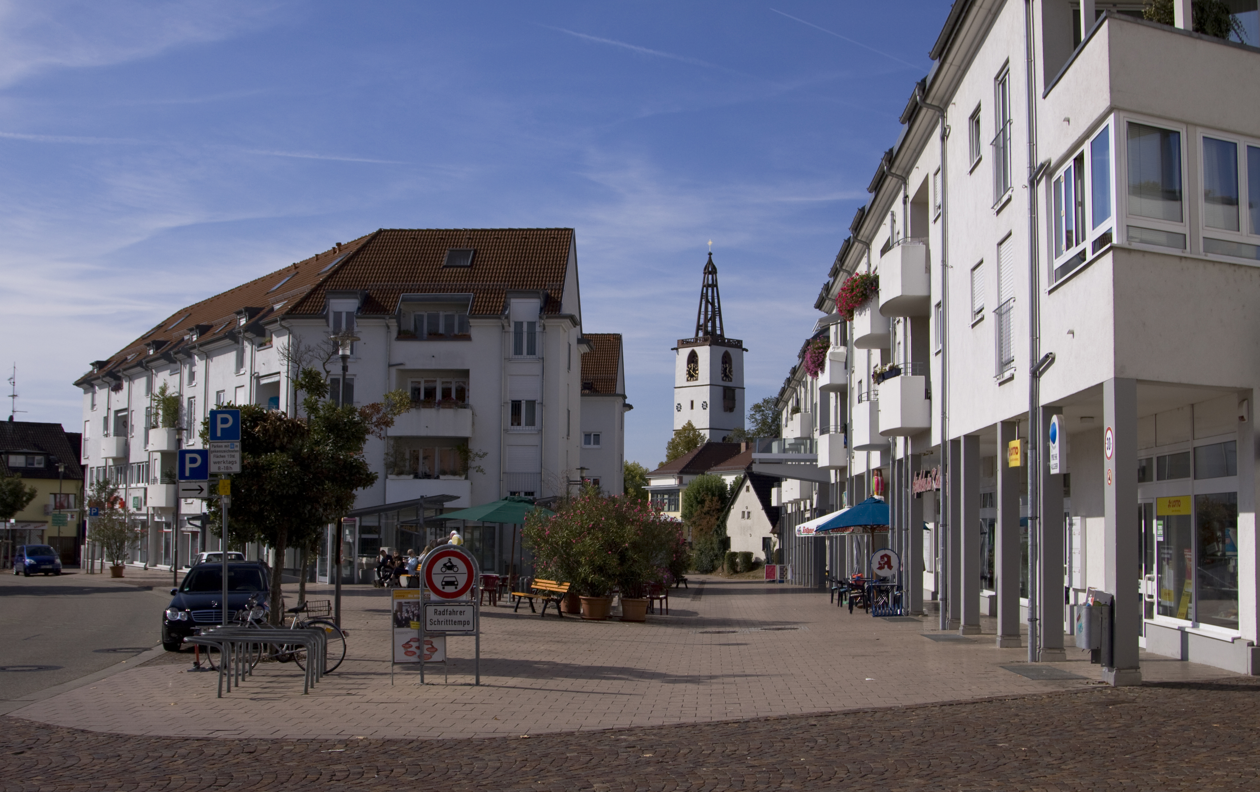 The "Kohlerhof" in Denzlingen.